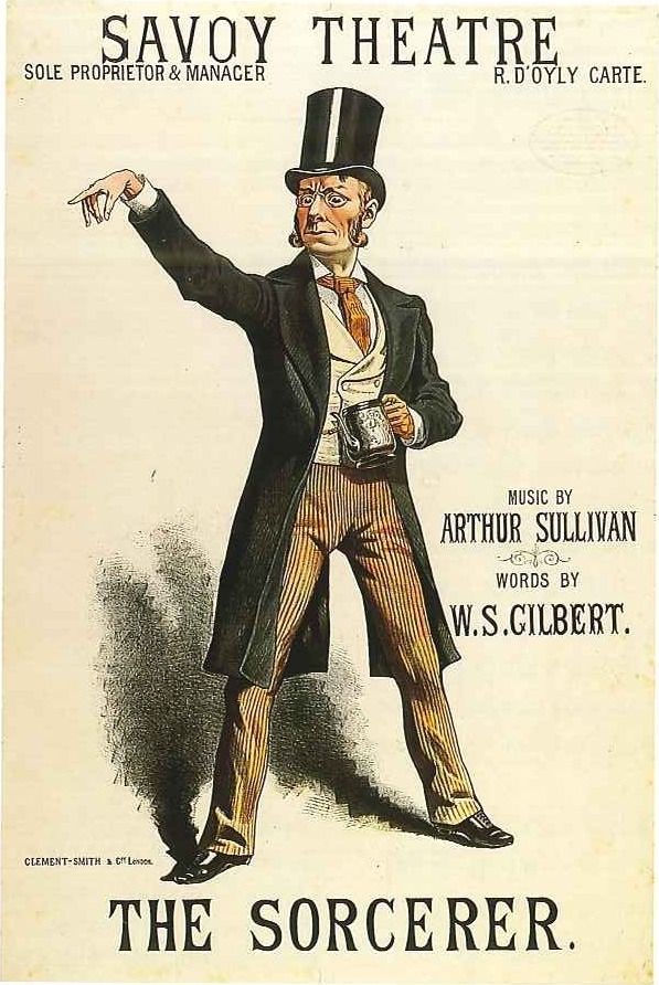 A poster for The Sorcerer revival.